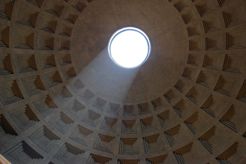 Pantheon dome